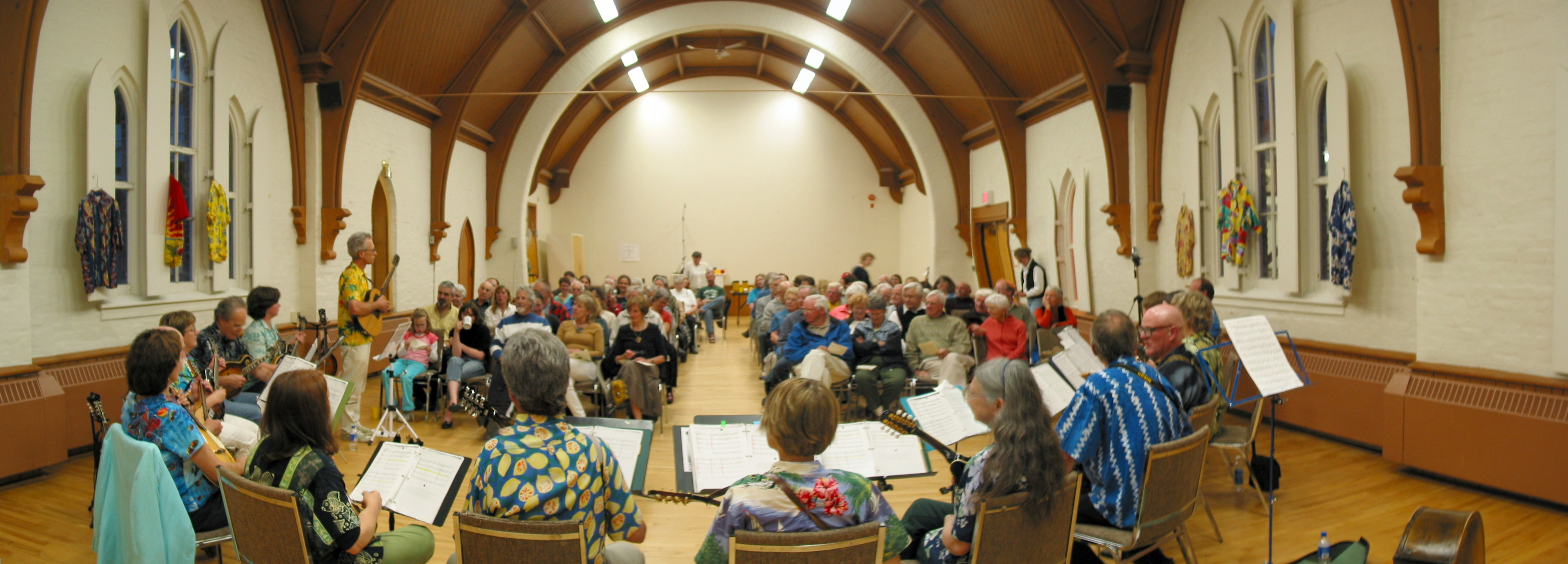 The Mandolin Society of Peterborough's first concert, 9 June 2006, St John's Guild Hall, Peterborough, Ontario, Canada. Conductor Curtis Driedger standing at left. Photo by Dan Delong.